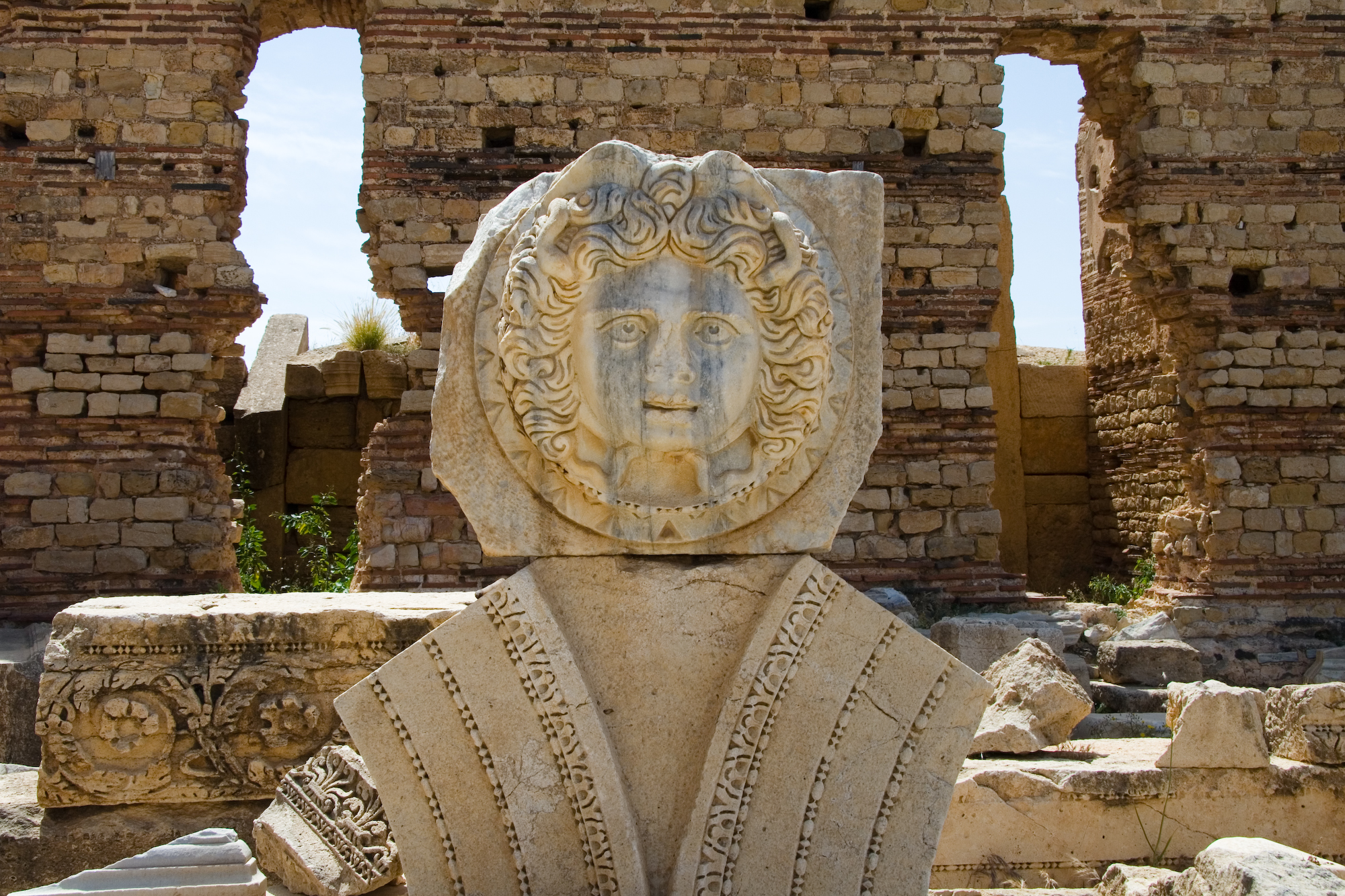 Gorgon head sculpture in the the Severii Forum of Leptis Magna, the well preserved ancient city along the Mediterranean Sea, located 120 km Est of Tripoli, Libya.